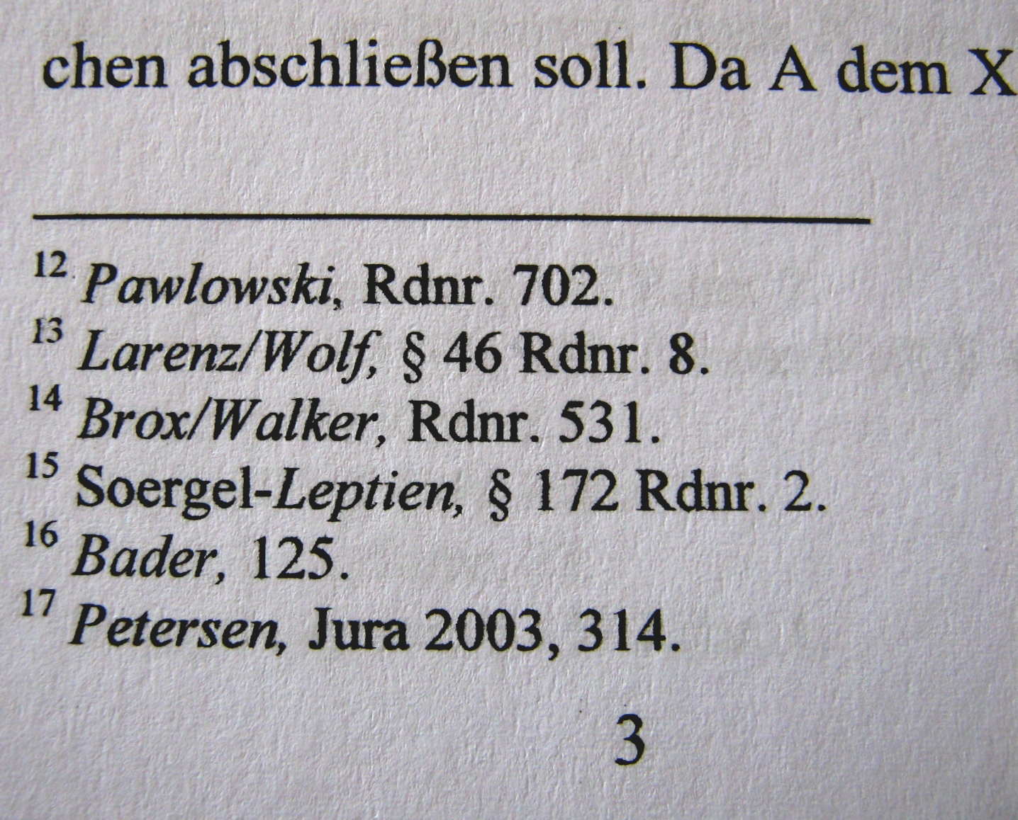 Footnotes